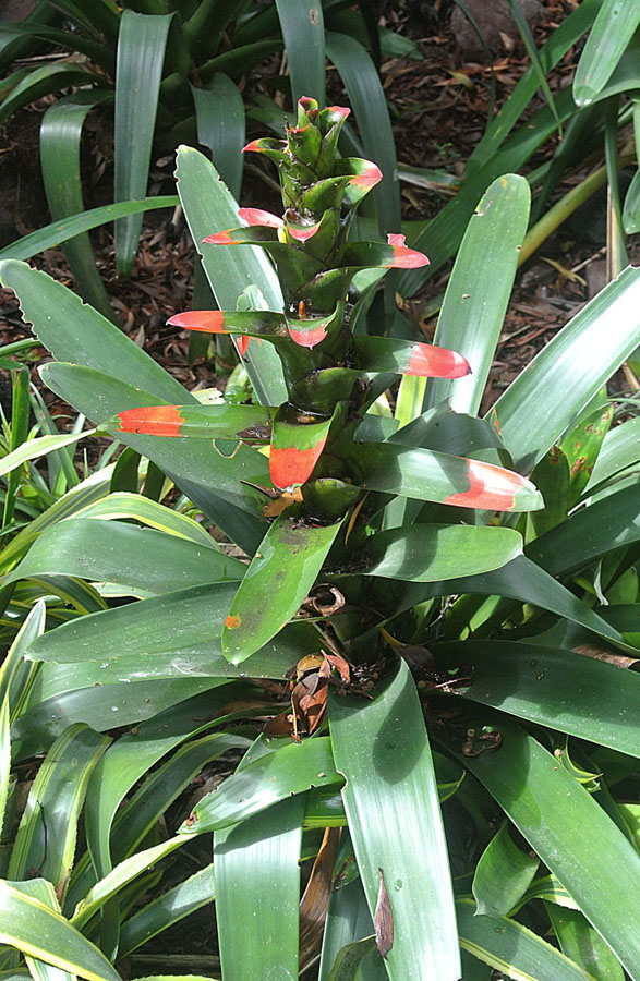 Found mainly in the mountains of Colombia and Ecuador. Photo from Quito Botanical Gardens. In context at